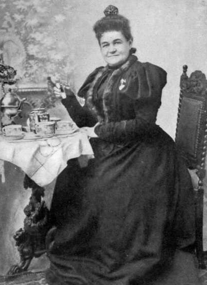 Portrait of Mary Virginia Terhune aka Marion Harland, mother of Albert Payson Terhune and a prominent writer herself